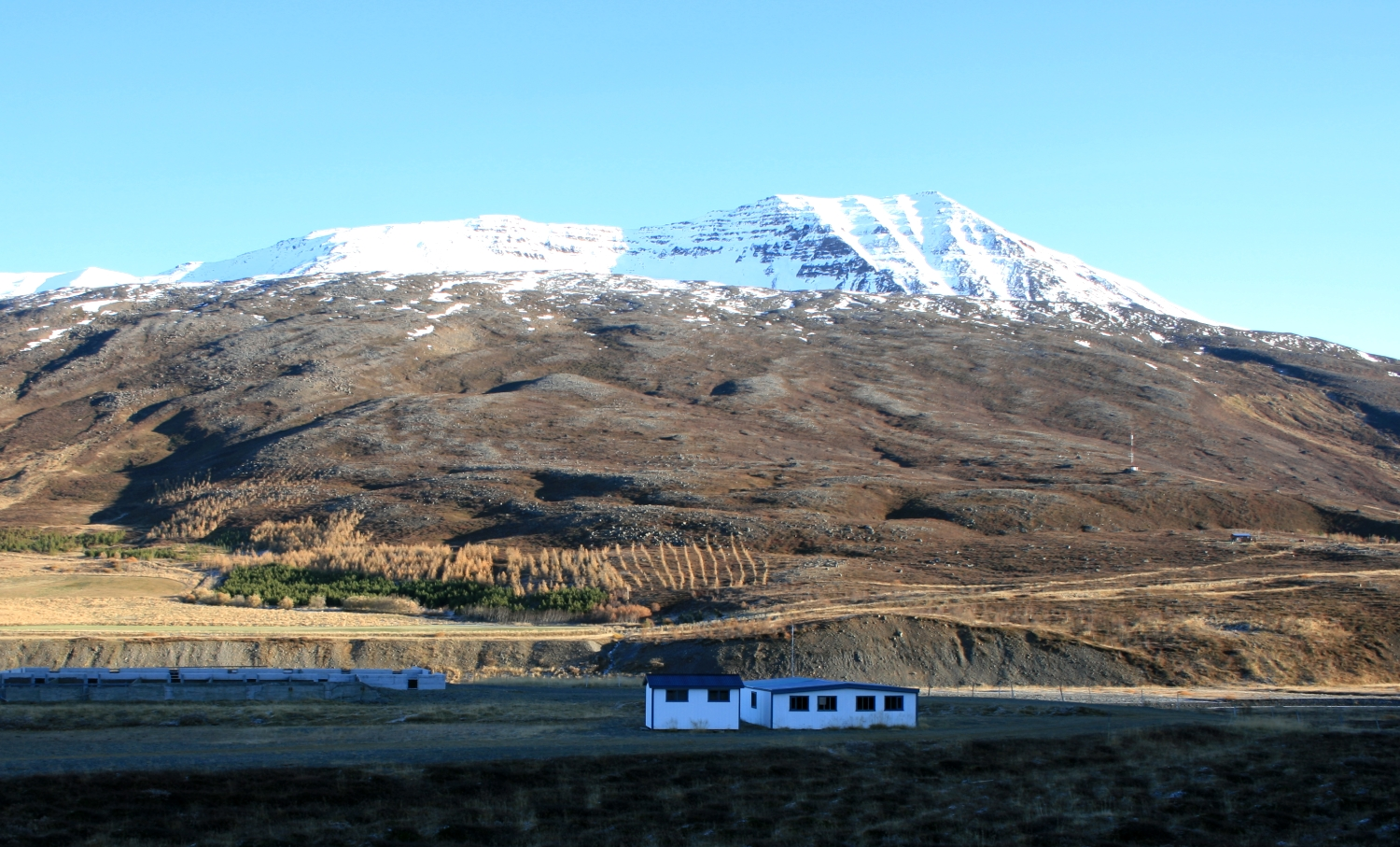 The mountain Hvarfsfjall, Svarfaðardalur valley, North Iceland with the rockslide Hvarfið in its slopes